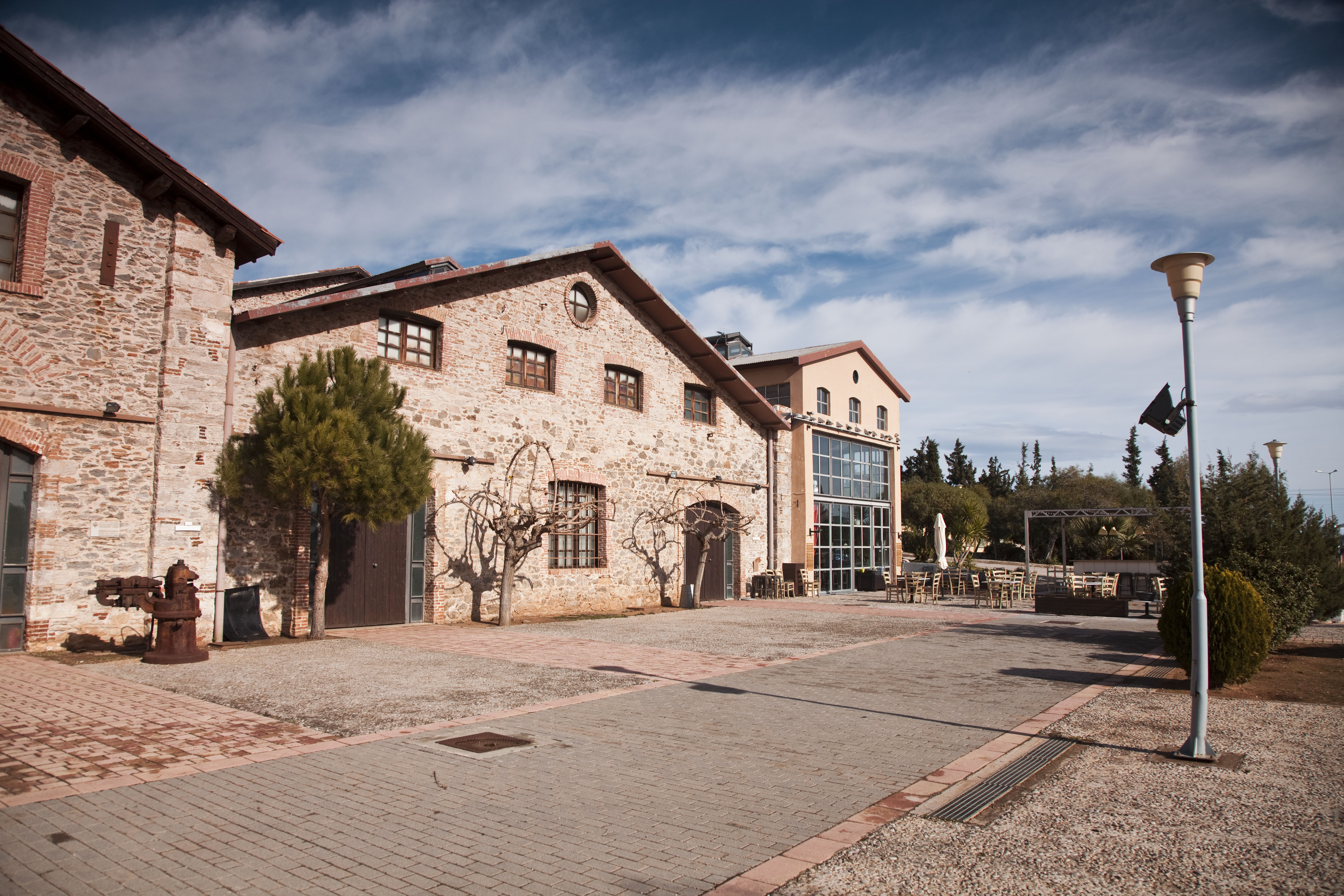 The Lavrion Technological and Cultural Park (LTCP), Attica, Greece